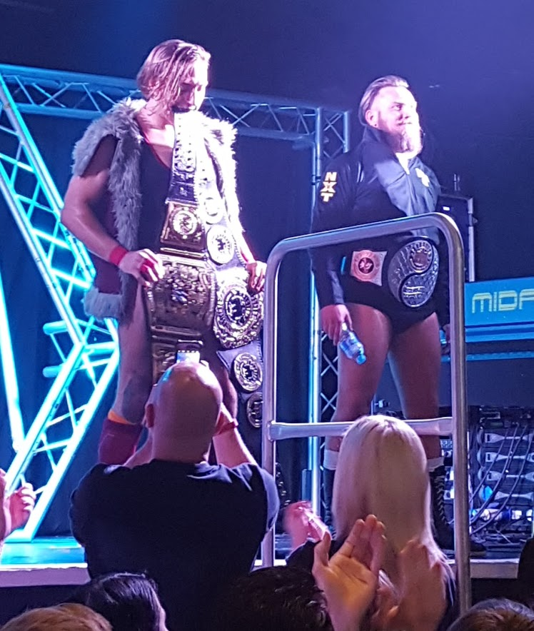 Pete Dunne as PROGRESS and WWE United Kingdom Champion, alongside Trent Seven